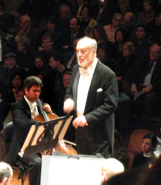 Taken from public performance. Jan, 13th 2007 Conducting San Francisco Symphony, Mendelssohn's "Scottish" Symphony.